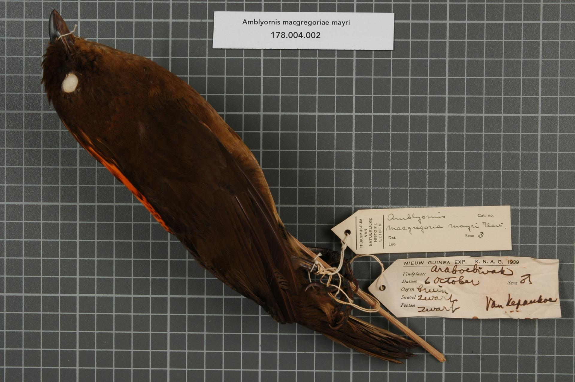 Amblyornis macgregoriae mayri Hartert, 1930